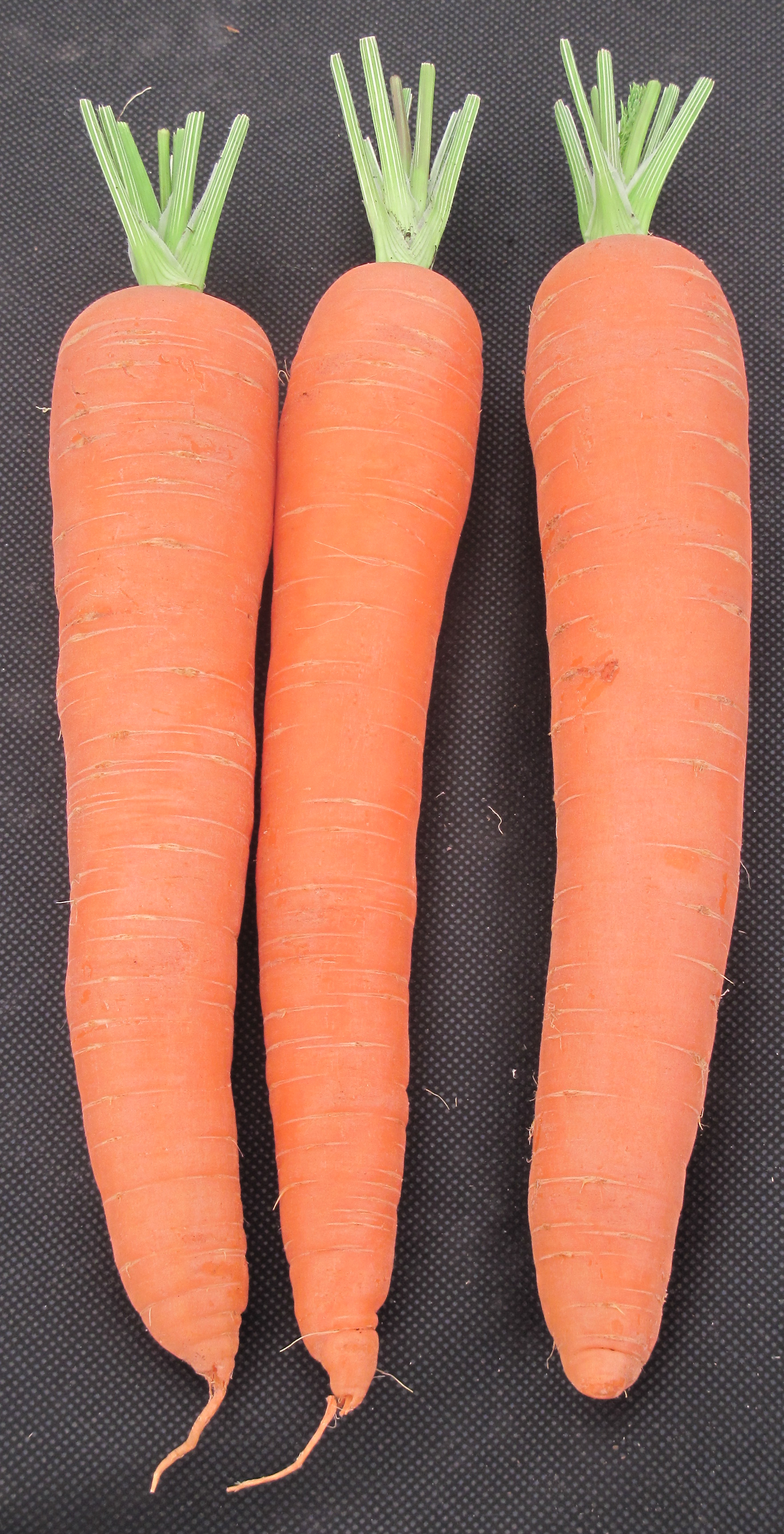 West Show, Jersey, 10-11 July 2010